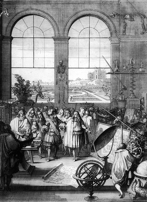 An engraving by Sebastien Le Clerc from Mémoires pour servir a l'Histoire Naturelle des Animause (Paris, 1671), depicting King Louis XIV visting the Académie des Sciences.